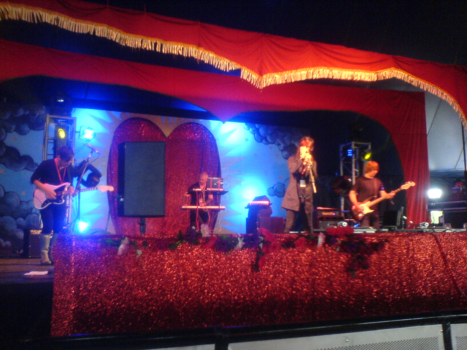 Burn the Negative performing at Glastonbury Festival 2009. Dance Lounge stage, 2pm - 3pm, Friday 26 June.